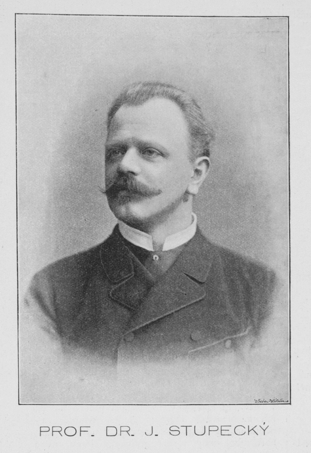 Portrait of Josef Stupecký (1848-1907), Czech lawyer, university professor.